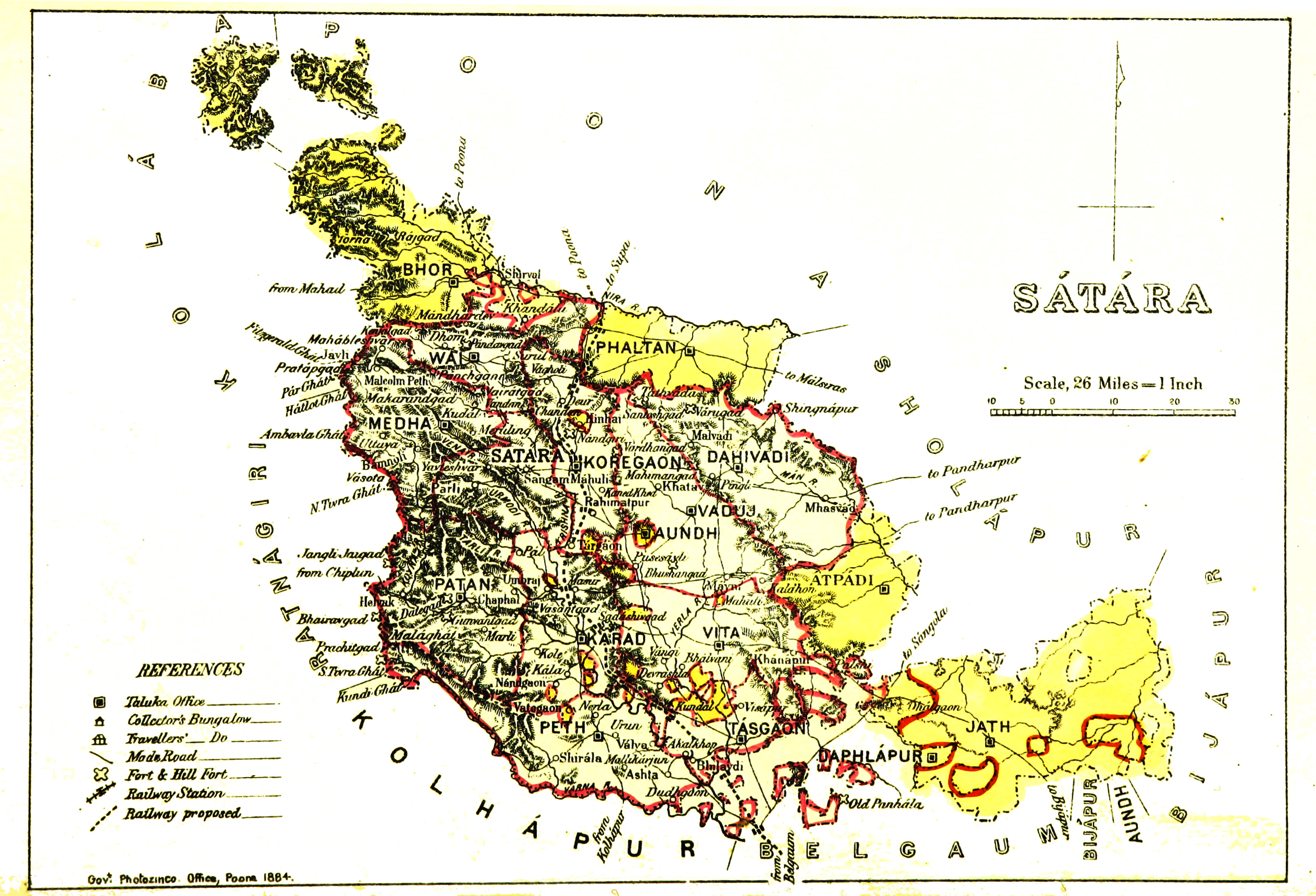 Map of Satara